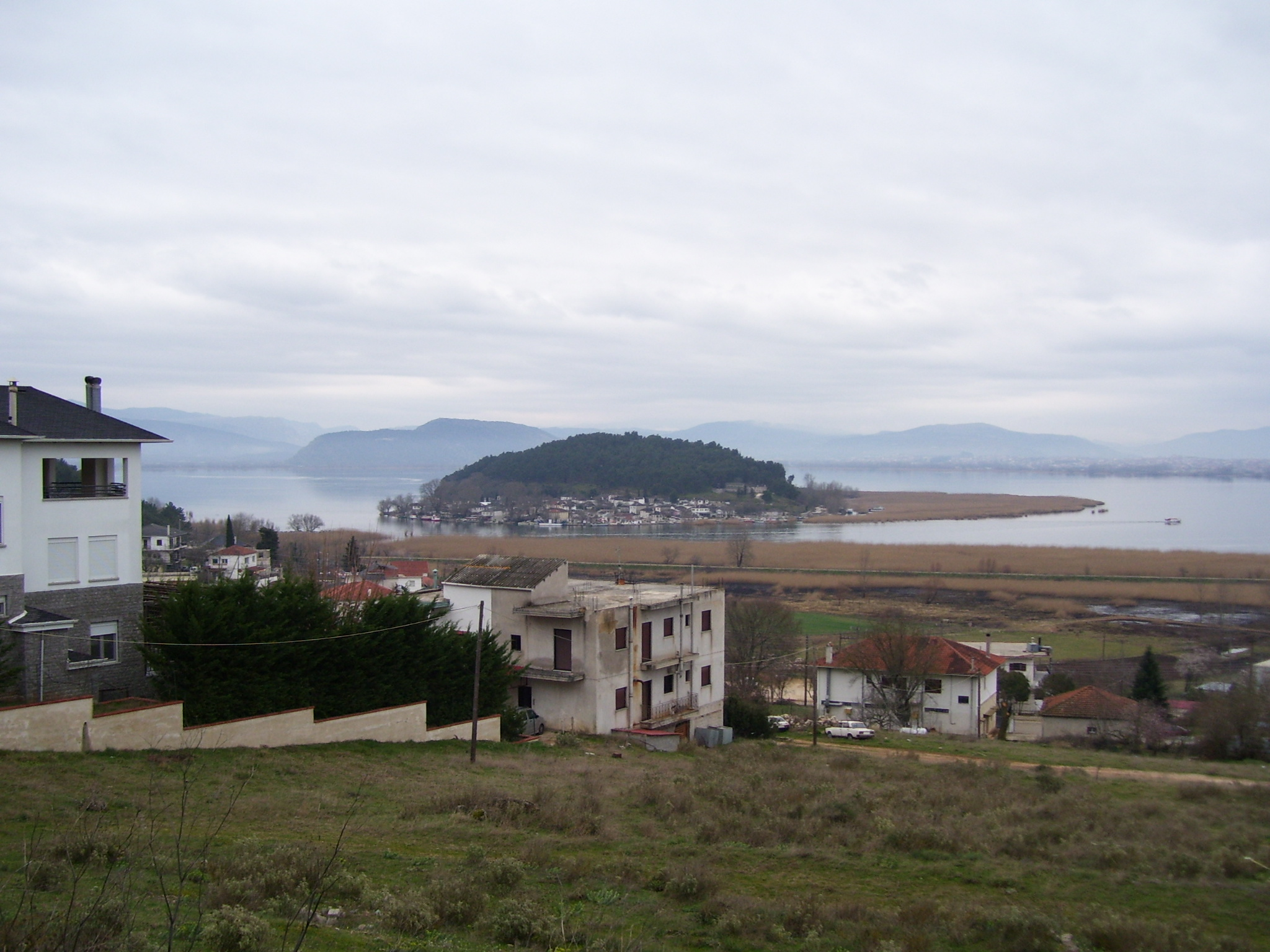 Ioannina lake's island